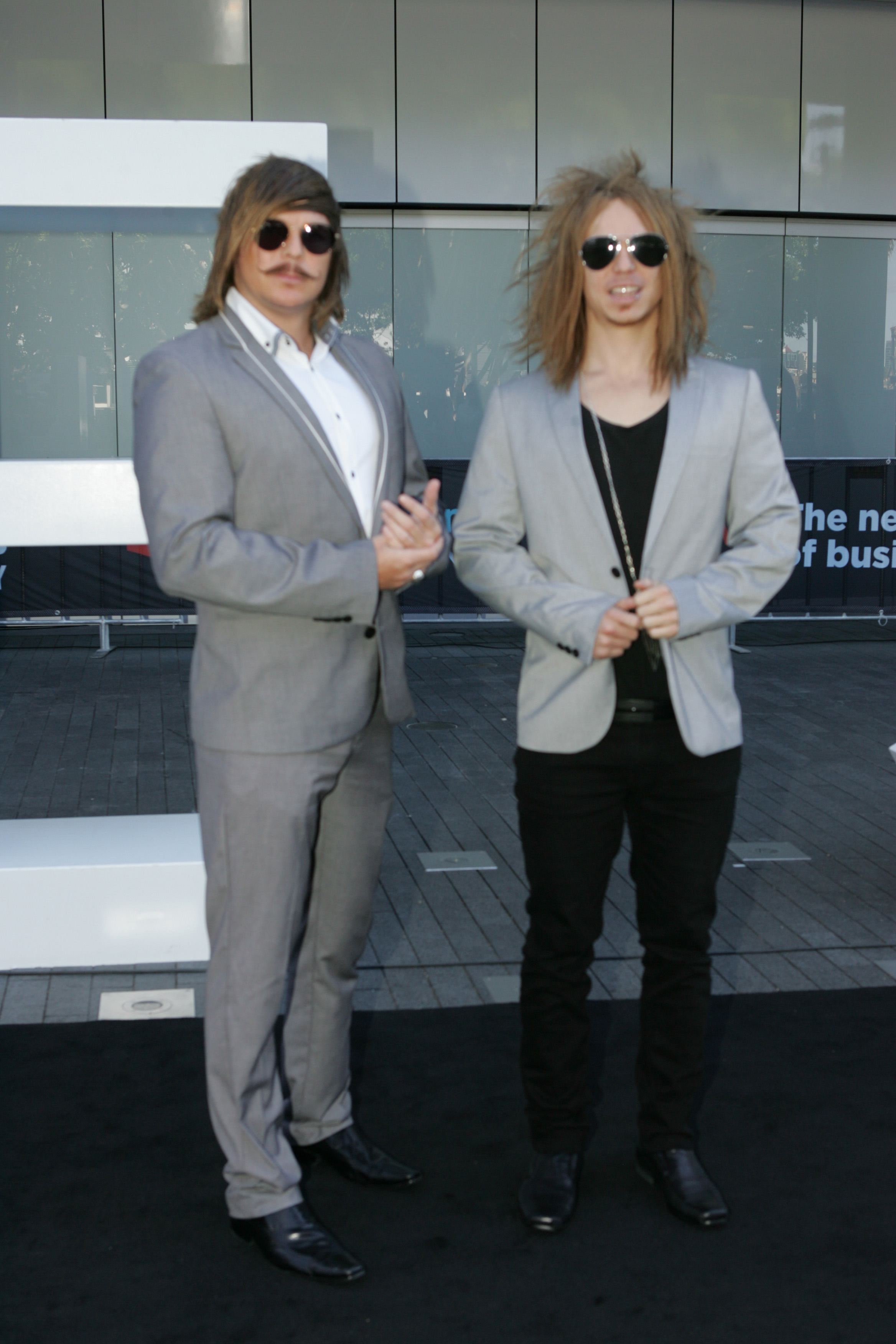 Bombs Away at the Aria Awards 2013 in Sydney Australia